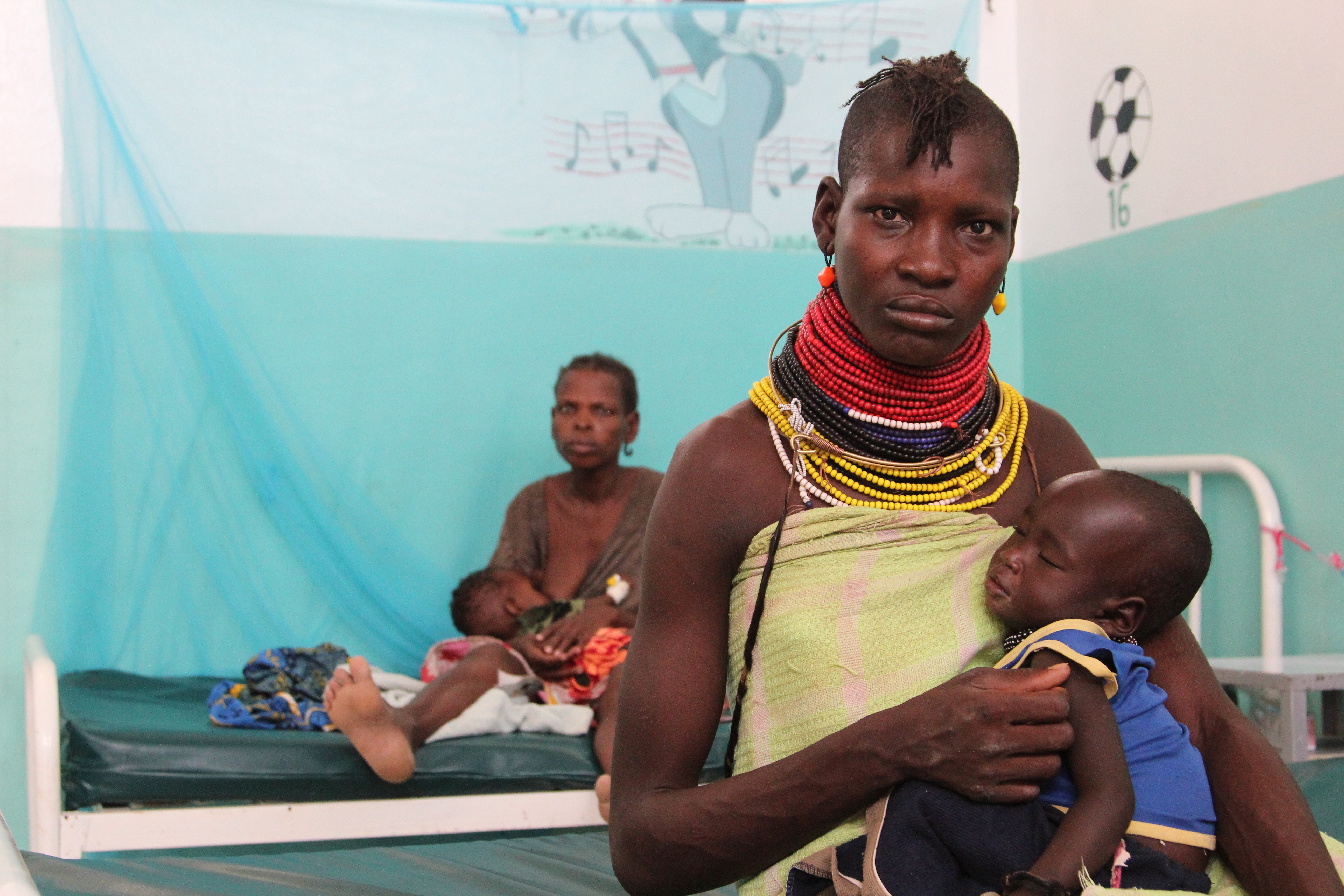 Nakitela Epur is pictured with her eleven-month-old daughter, Epuu, who is recovering well after being treated for acute malnutrition in the pediatric ward in Lodwar District Hospital, in Kenya's northern Turkana county. Lodwar hospital has been refurbished with help from the UK. All the children in this ward are being treated for complicated acute malnutrition. Turkana - one of the poorest regions in Kenya - has been hit hard by the current food crisis. The loss of livestock due to drought has left thousands in need of humanitarian assistance. Britain was one of the first countries to respond to the crisis. To date, the British public have donated over £72 million to the DEC appeal and more than three million people will benefit from UK-funded humanitarian programmes. Picture: Marisol Grandon/Department for International Development Terms of use This image is posted under a Creative Commons - Attribution Licence, in accordance with the Open Government Licence. You are free to embed, download or otherwise re-use it, as long as you credit the source as 'Marisol Grandon/Department for International Development'.